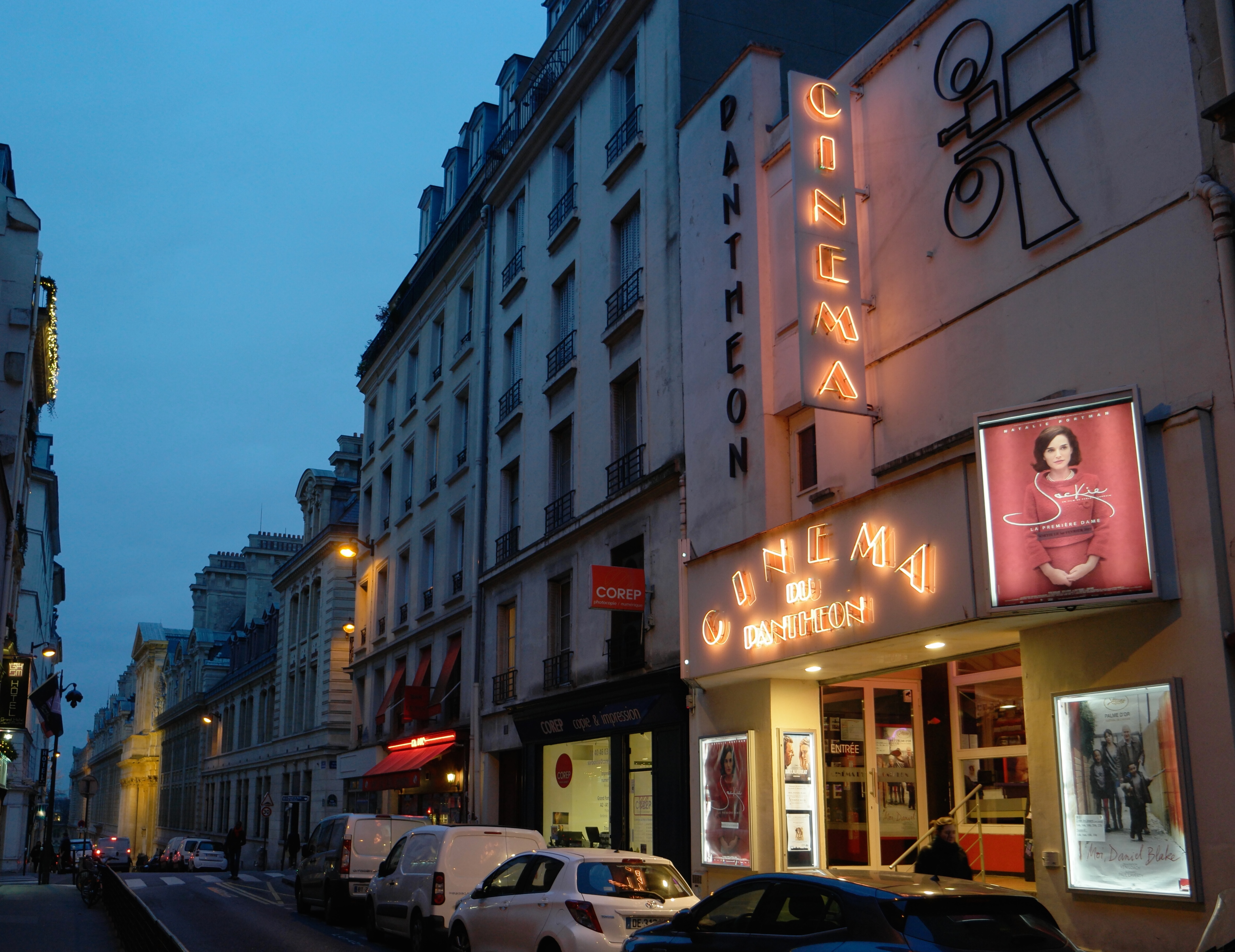 Street of the Cinéma du Panthéon.